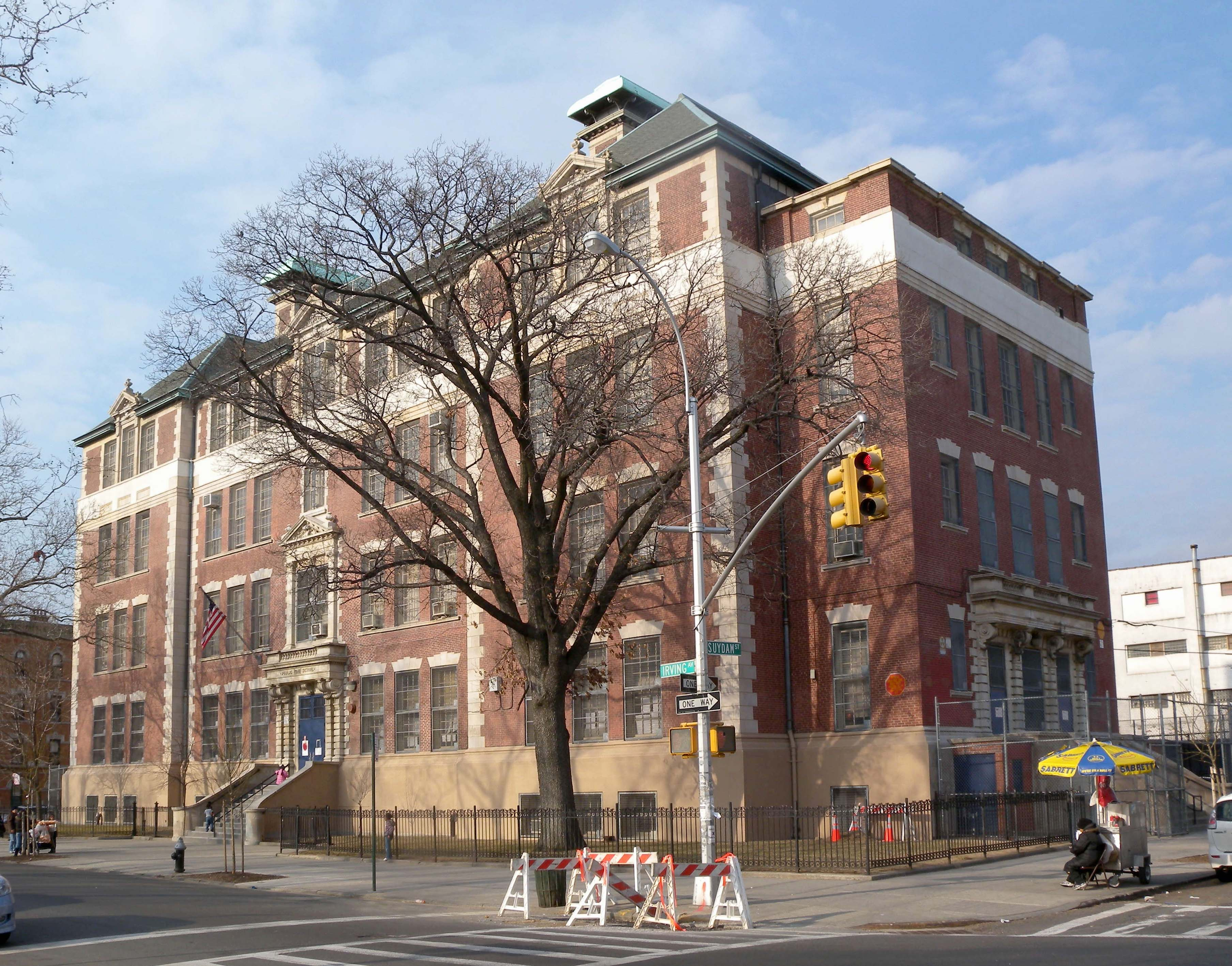 Looking north across Irving Avenue and Suydam Street at Public School 123 in Bushwick, Brooklyn on a sunny afternoon.